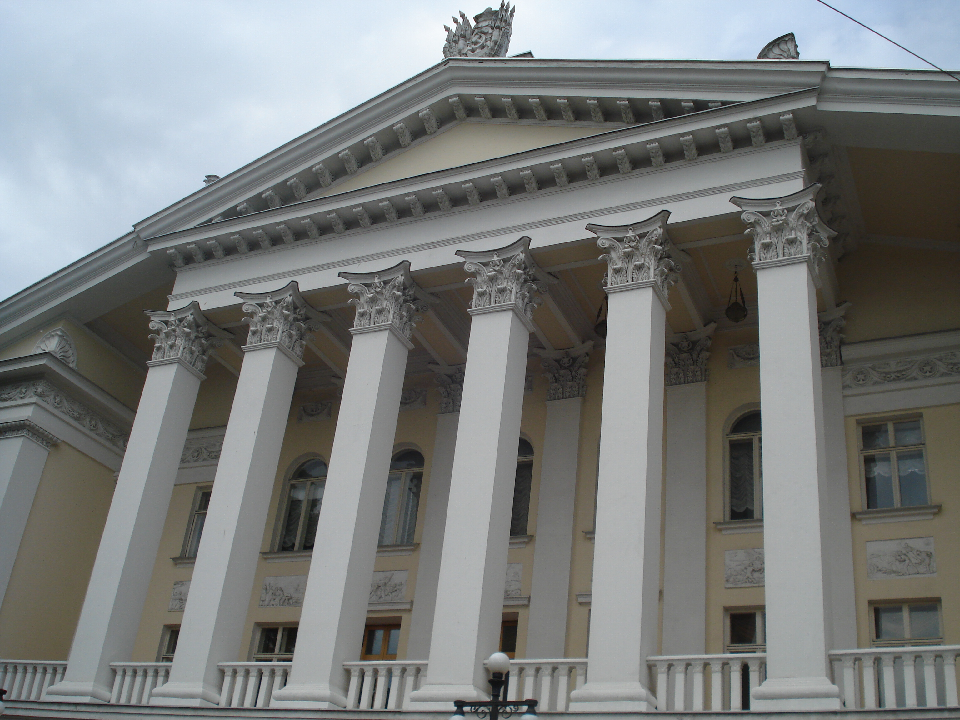 Russian Cultural Centre, Tallinn